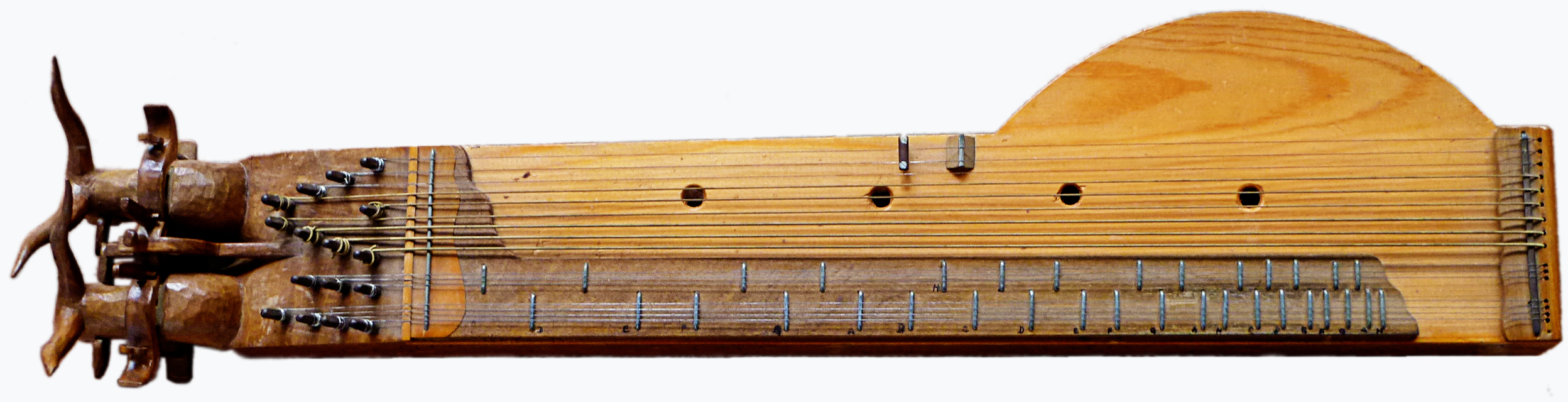 Scherrzither (a type of droned zither)